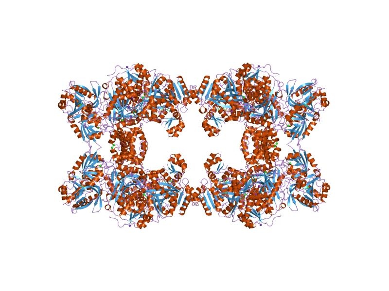 Cartoon representation of the molecular structure of protein registered with 1kee code.